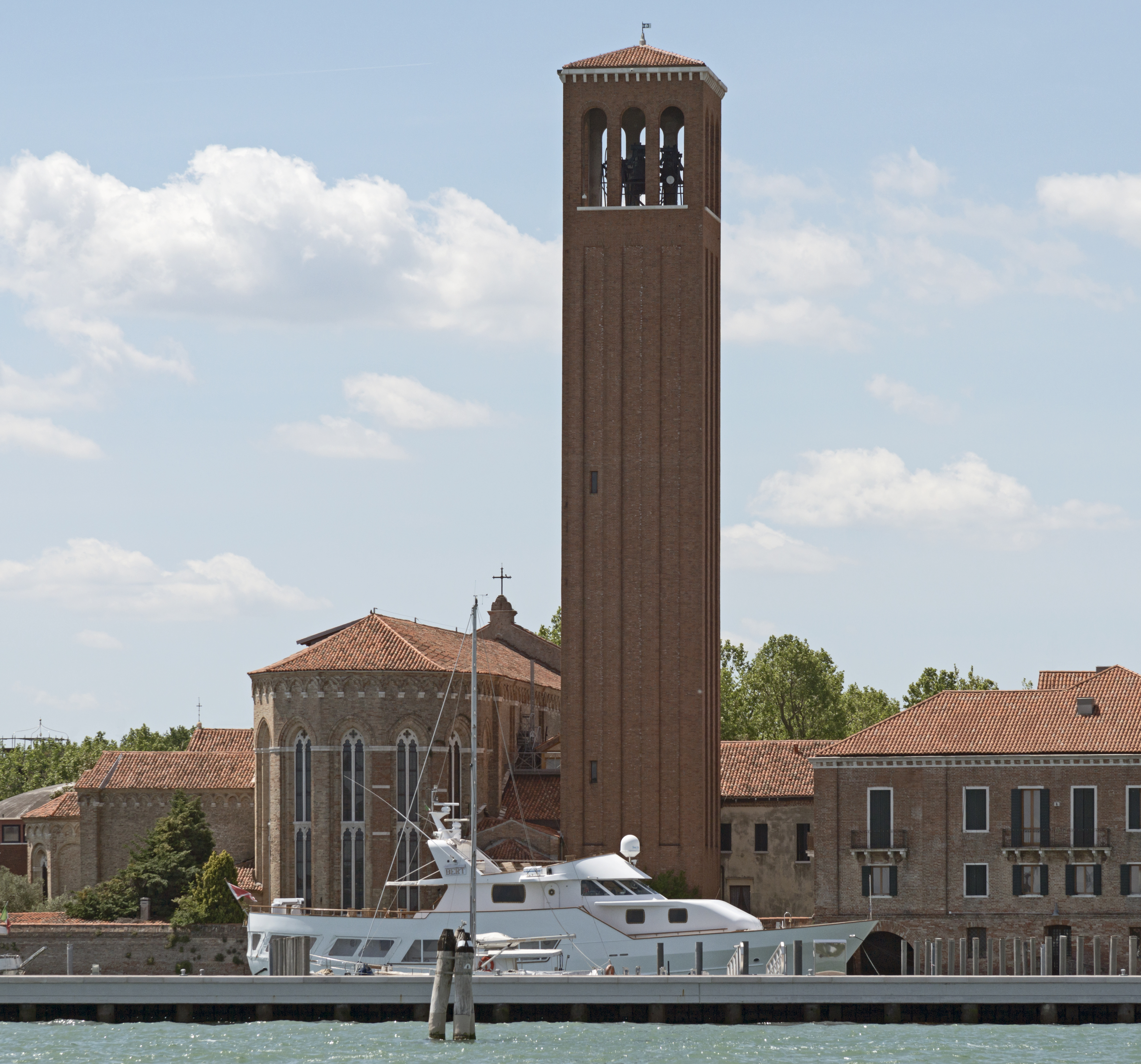 The apse and the church bell tower of Sant'Elena, in Venice Venice.